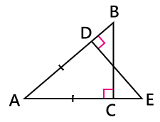 ASA